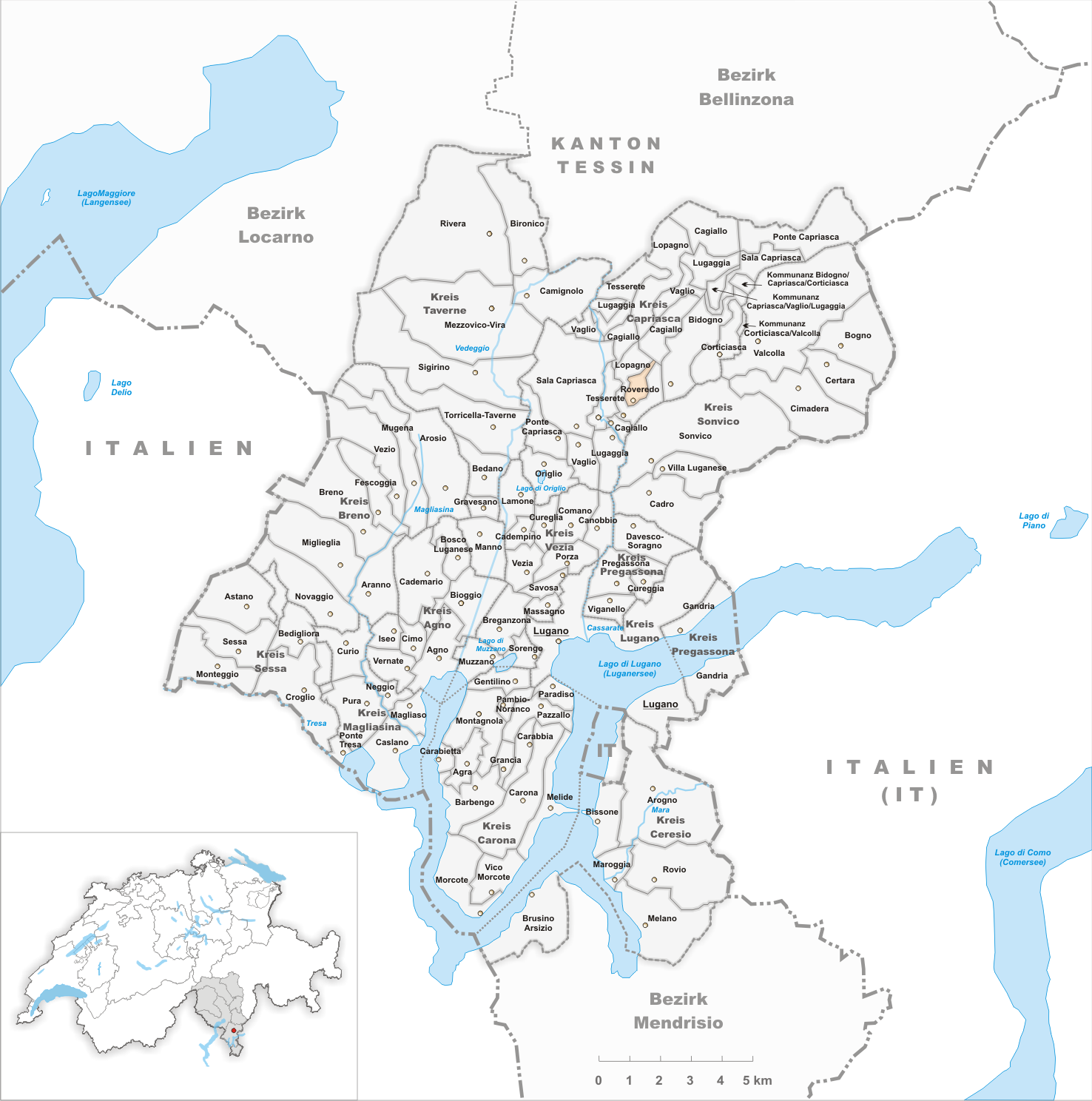 Municipality Roveredo Artist: Tschubby